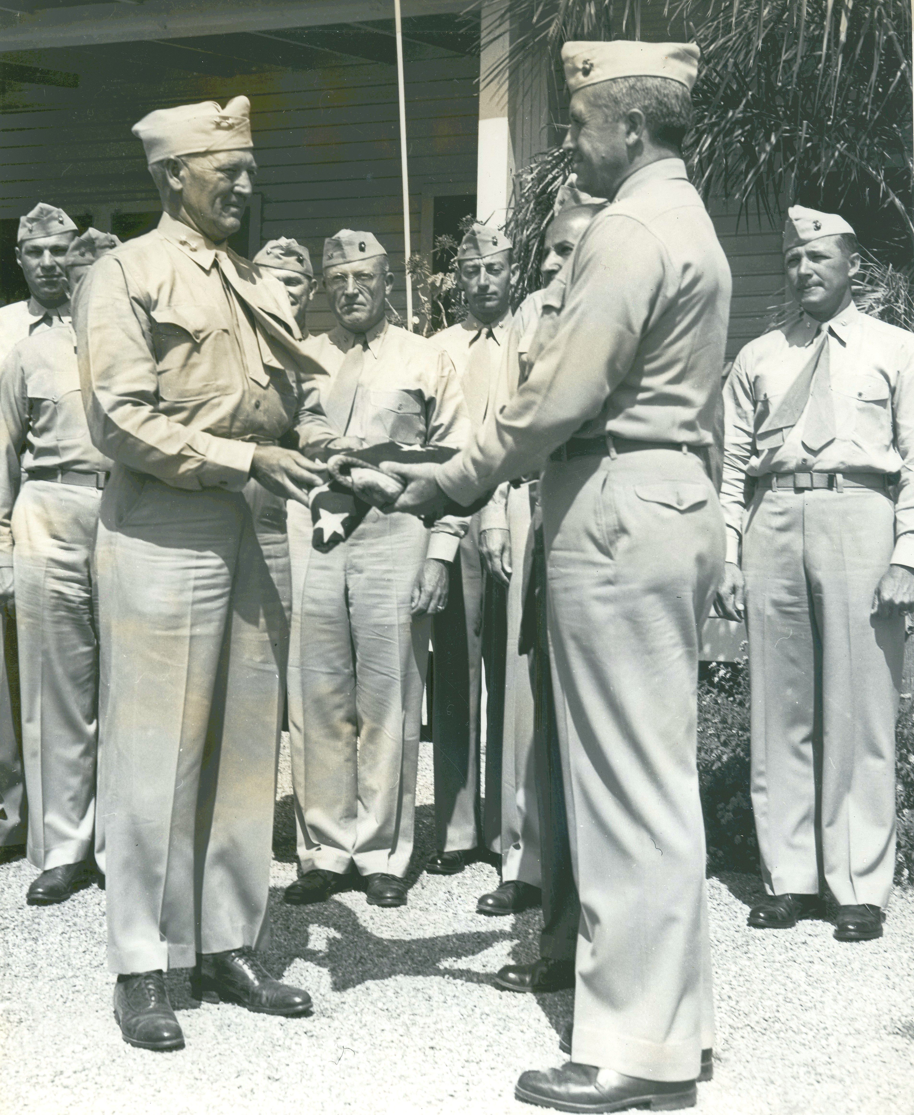 The flag raised on Iwo Jima is presented to Major General Graves B. Erskine to be used in the filming of Sands of Iwo Jima. From the Graves B. Erskine Collection (COLL/3065) at the Marine Corps Archives and Special Collections OFFICIAL USMC PHOTOGRAPH